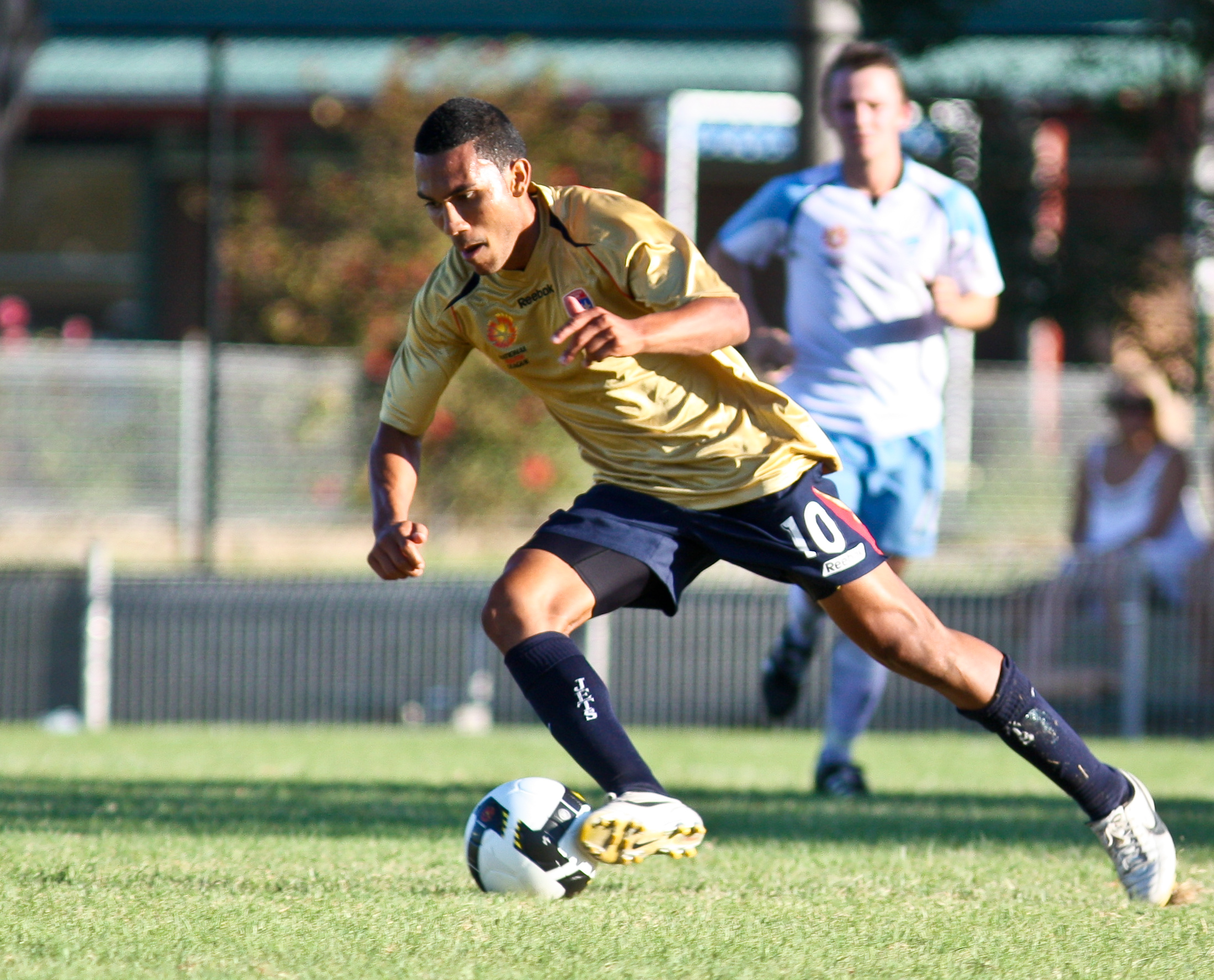 Jesse Pinto playing for the Newcastle Jets Youth League Team against Sydney FC Youth